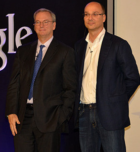 Eric Schmidt, Andy Rubin at a press conference for the Google's tablet Nexus 7, Grand InterContinental Hotel, Seoul on September 27, 2012